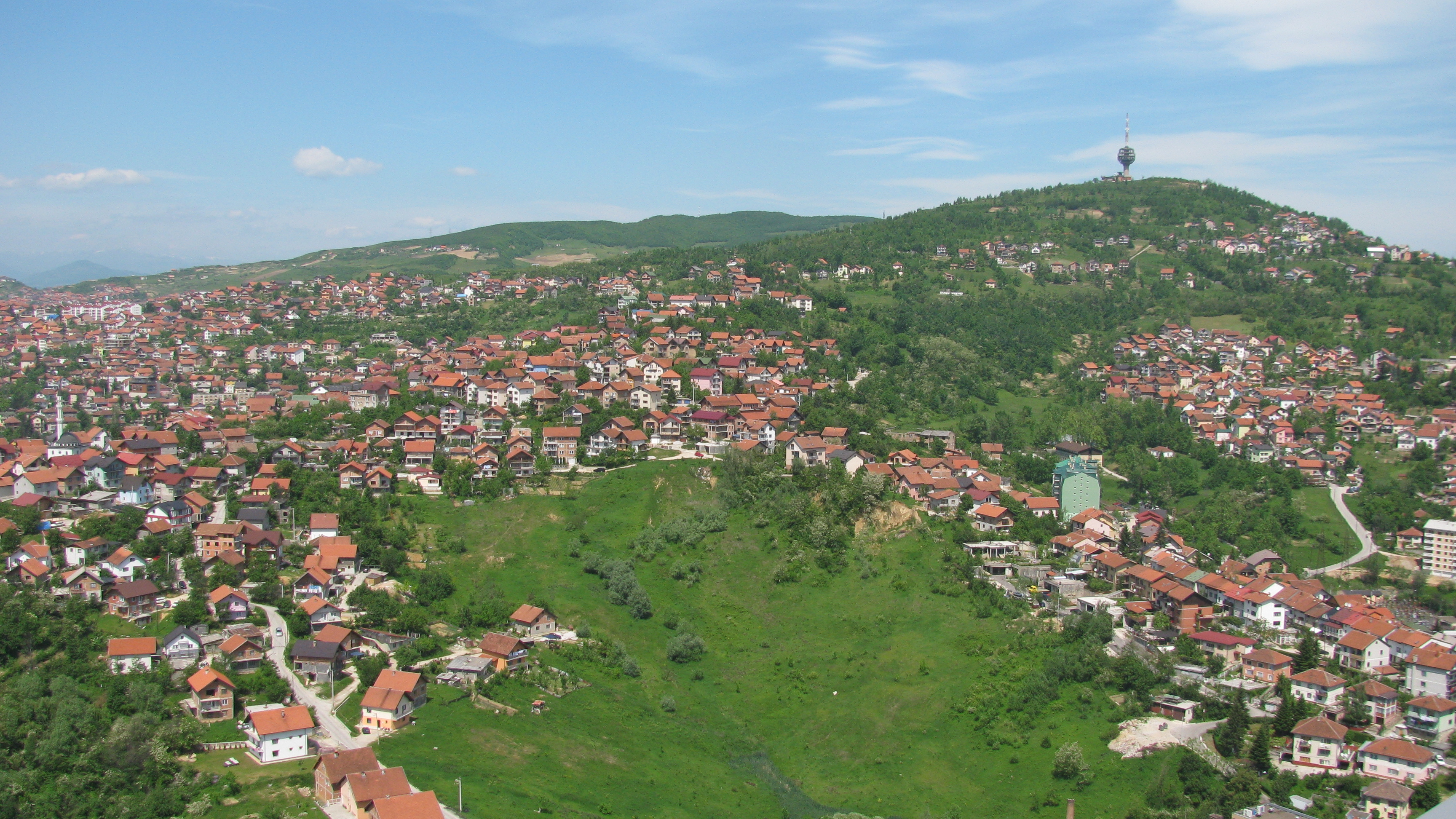 Hum Hill (Brdo Hum) with the radio tower most prominent feature